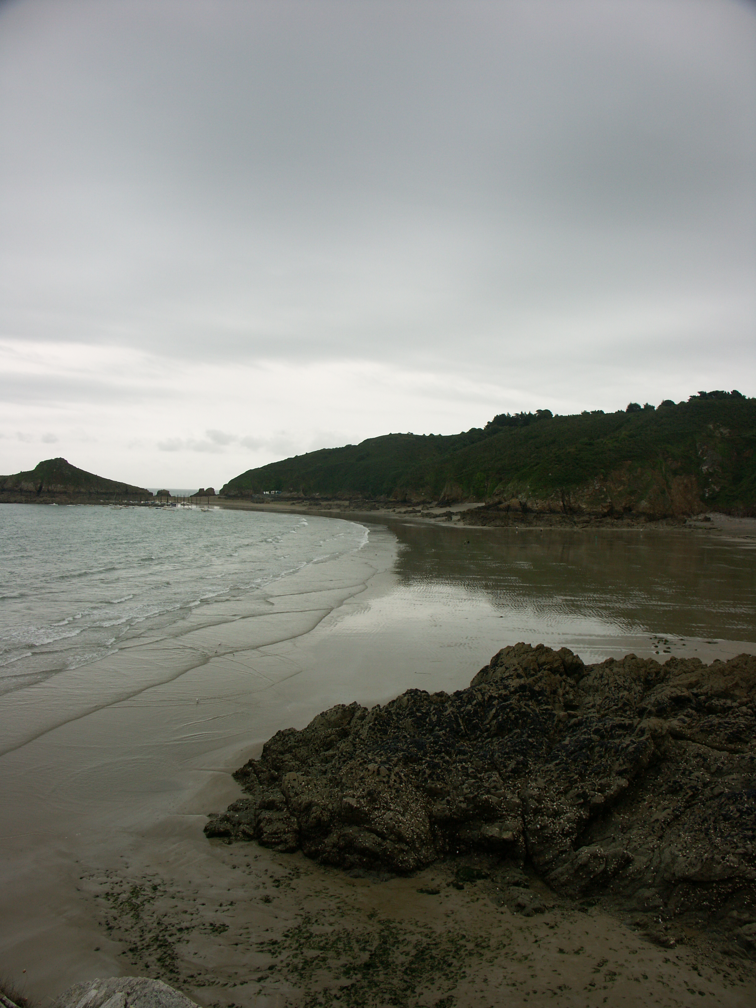 Porz Moguer Bay